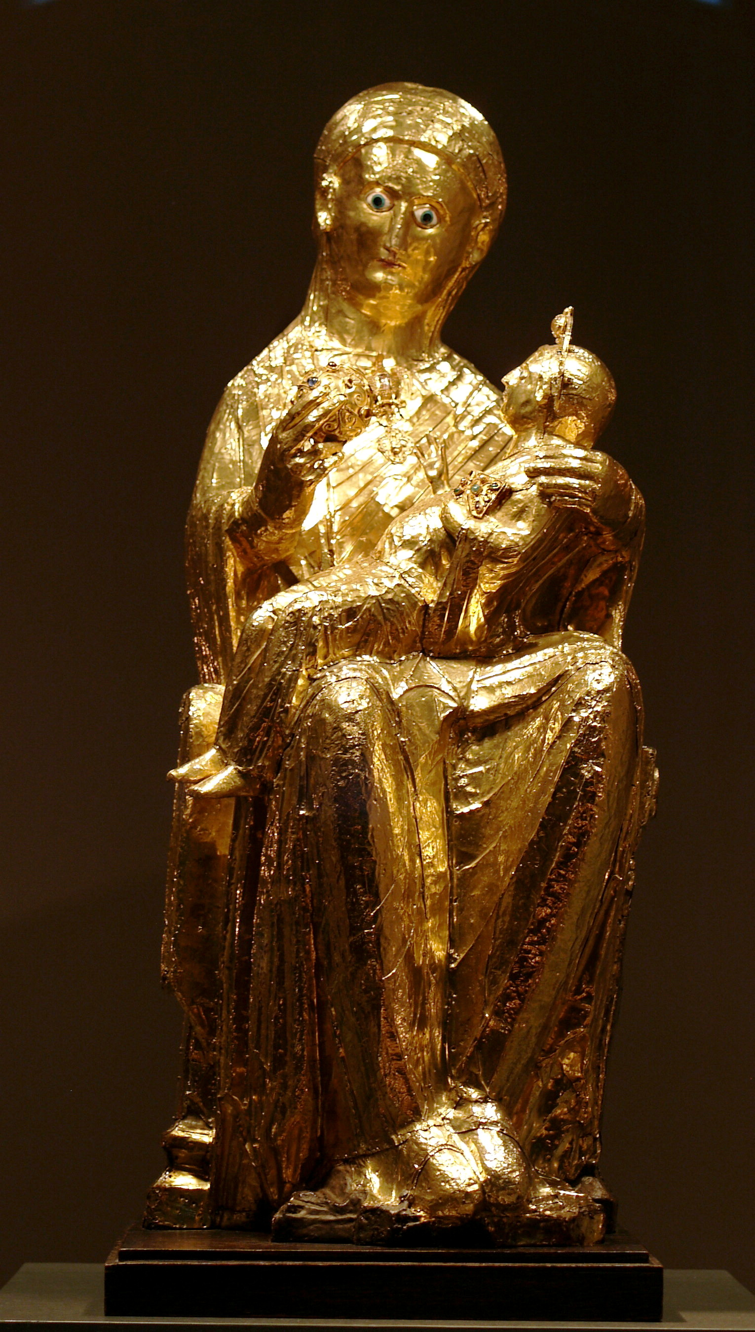 Gold plated madonna in the catholic cathedrale of Essen, Germany